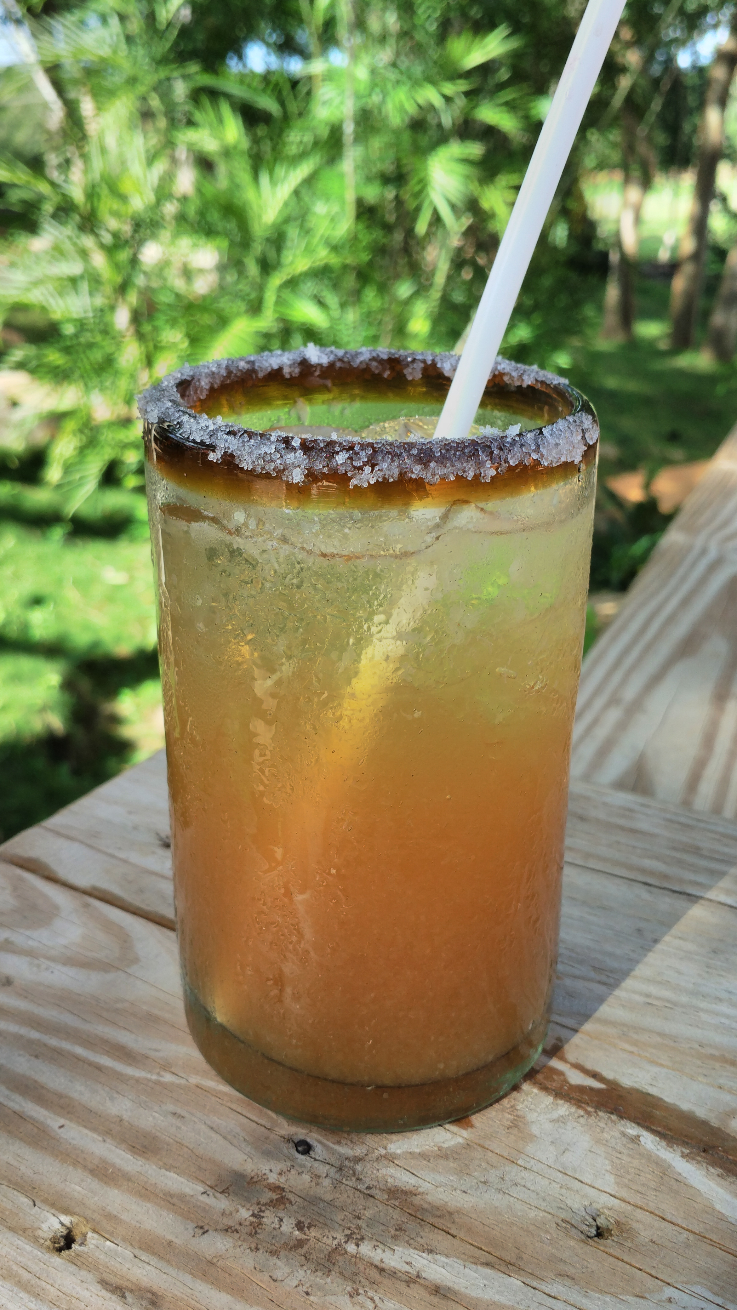 A glass of michelada in Yucatan state, Mexico.